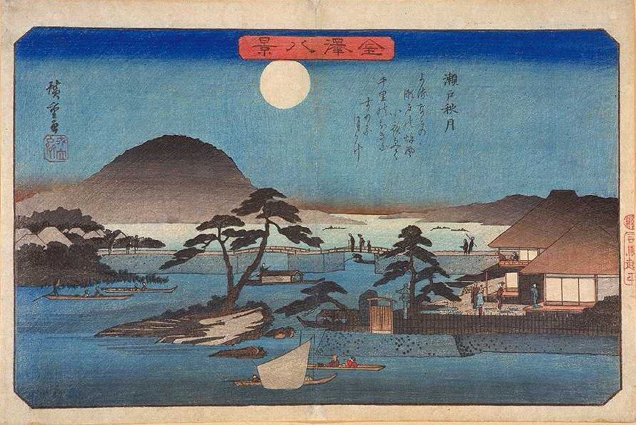 Kanazawahakkei Seto no syuugetsu